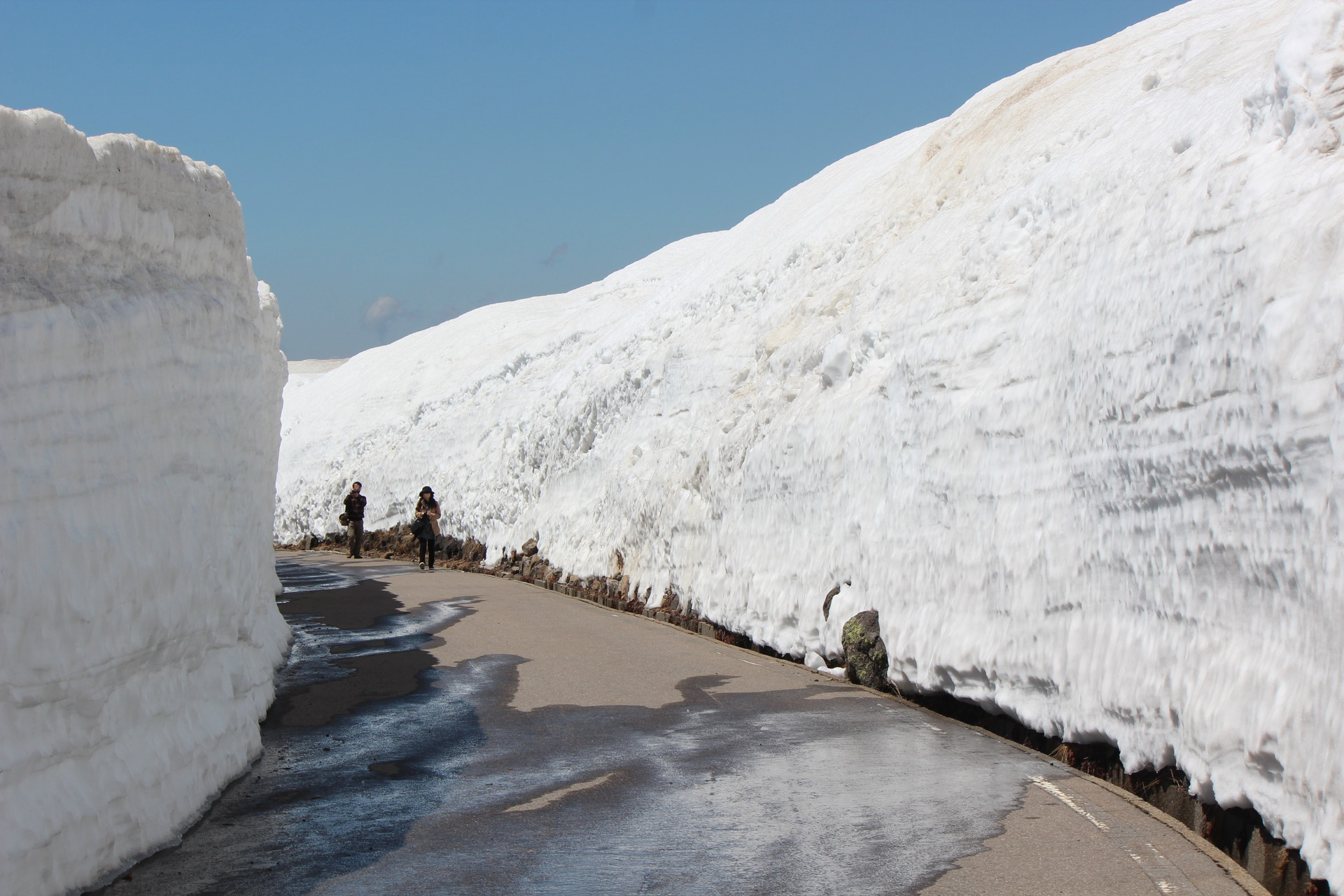 Snow wall at Norikura Echoline of Mount Norikura, Takayama, Gifu oref., Japan.